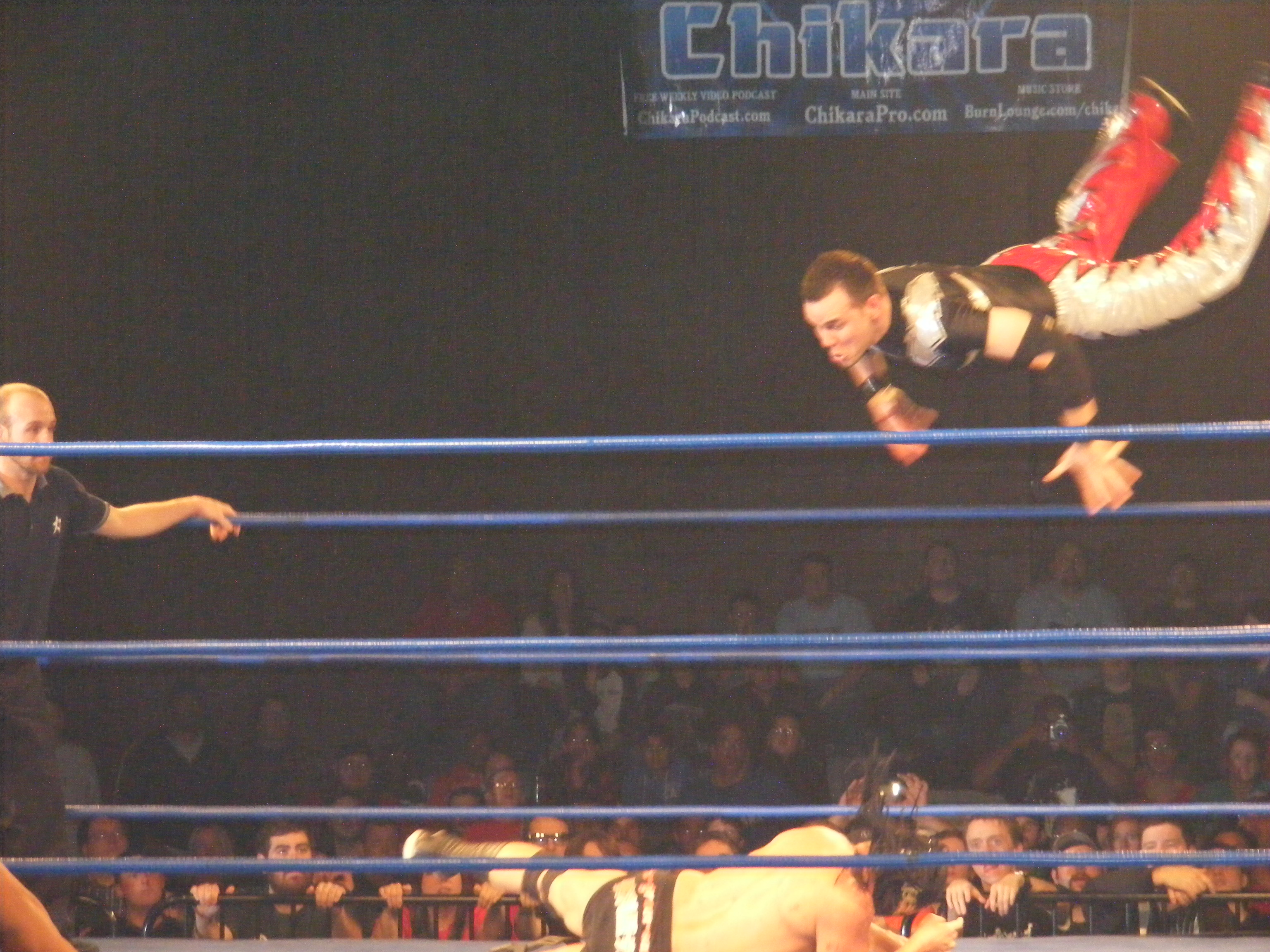 Professional wrestler Mike Quackenbush performing a senton atomico on the Great Sasuke at Chikara King of Trios 2011.